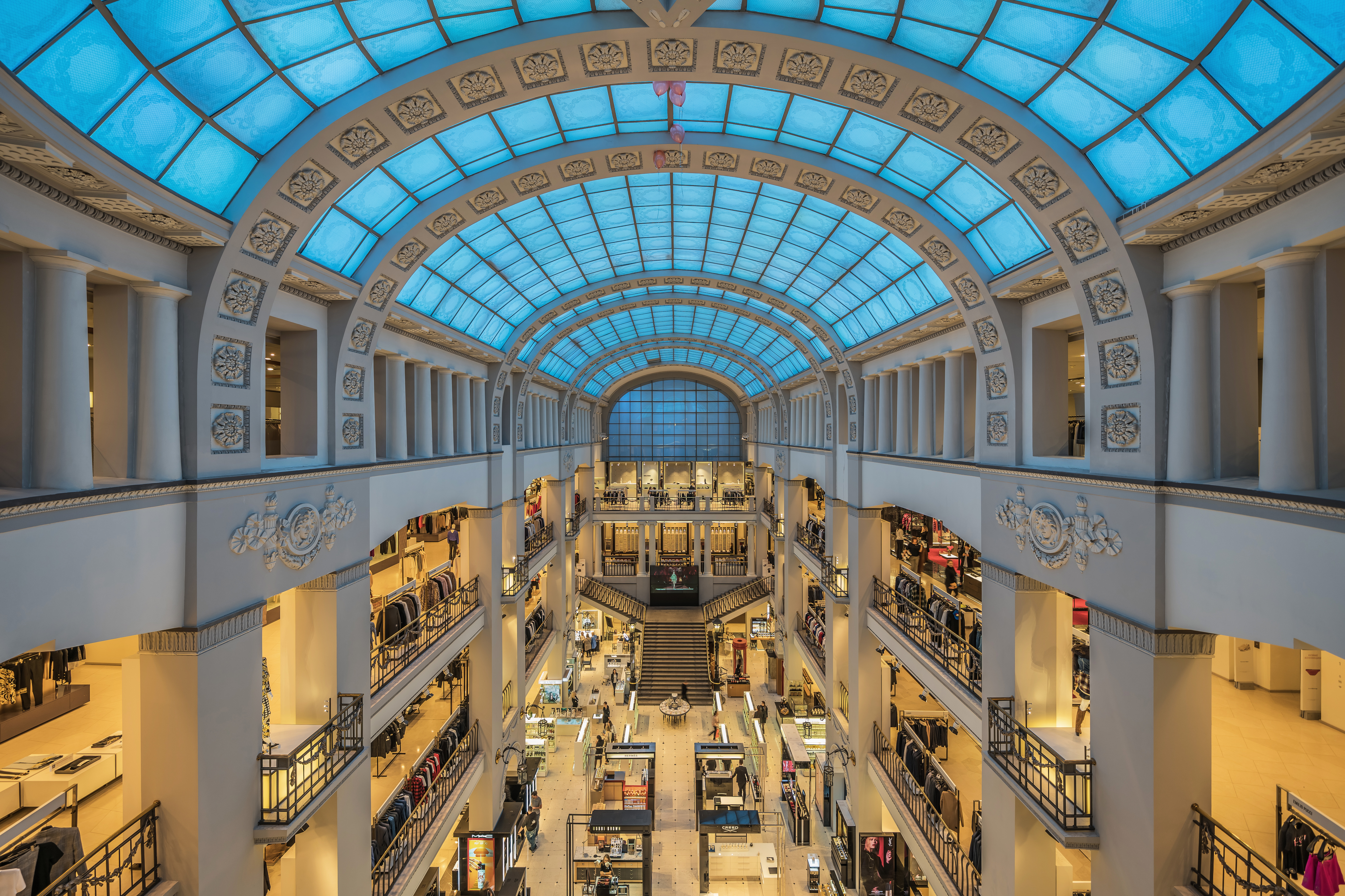 Interior of the DLT Department Store in Saint Petersburg, Russia